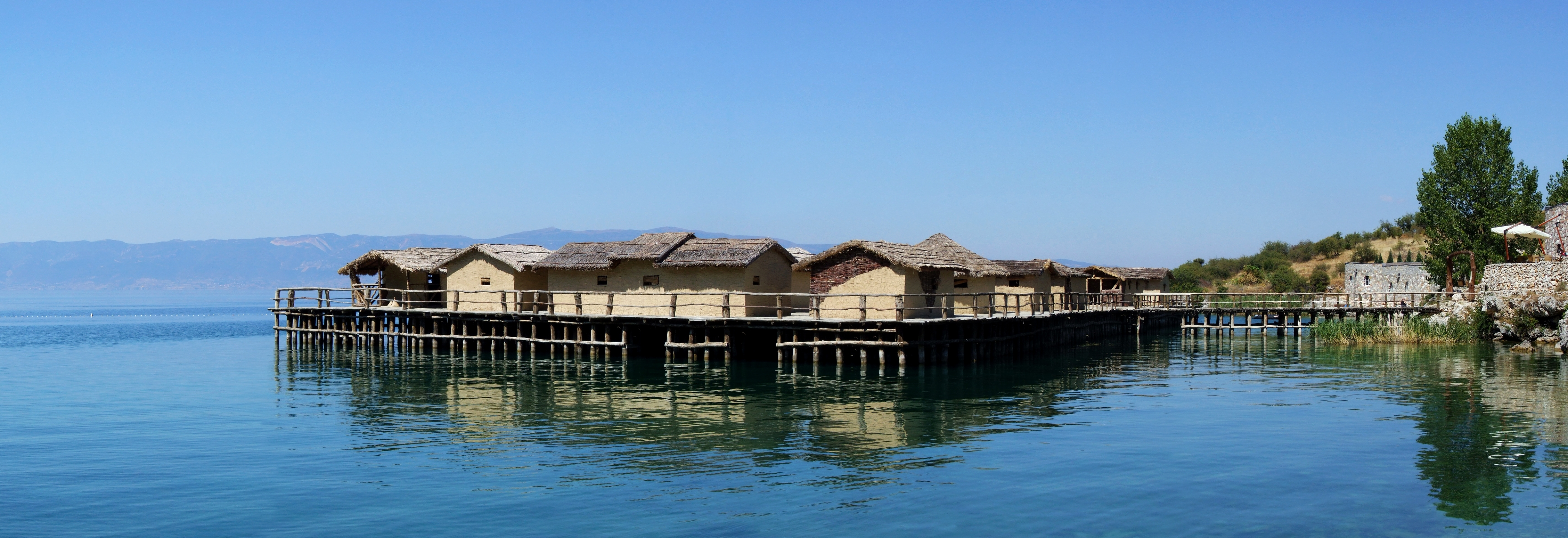 Museum on Water, Ohrid, Macedonia